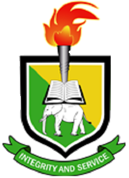 Nifa SHS Banner